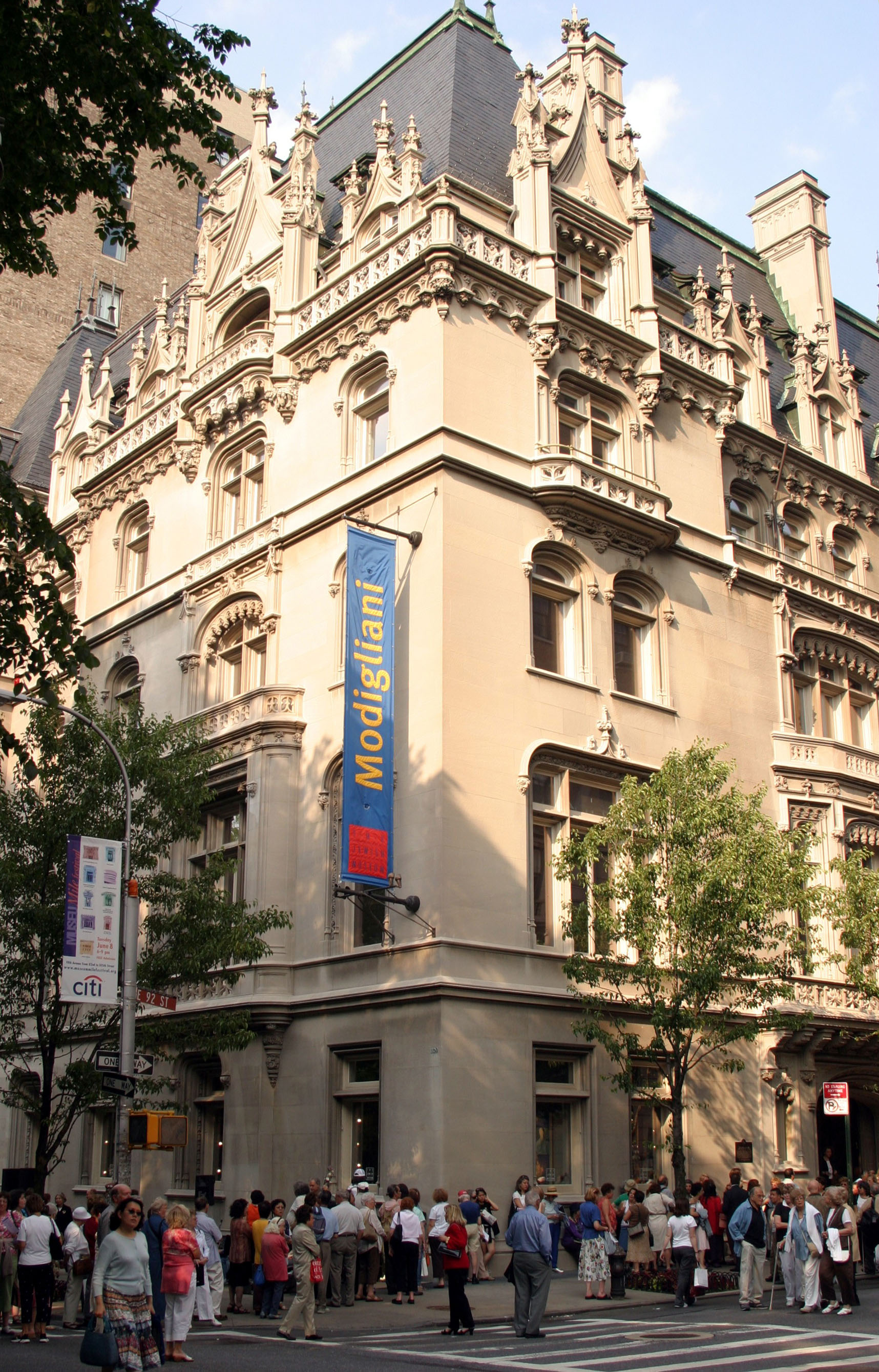 People outside The Jewish Museum - 2004 Museum Mile Festival